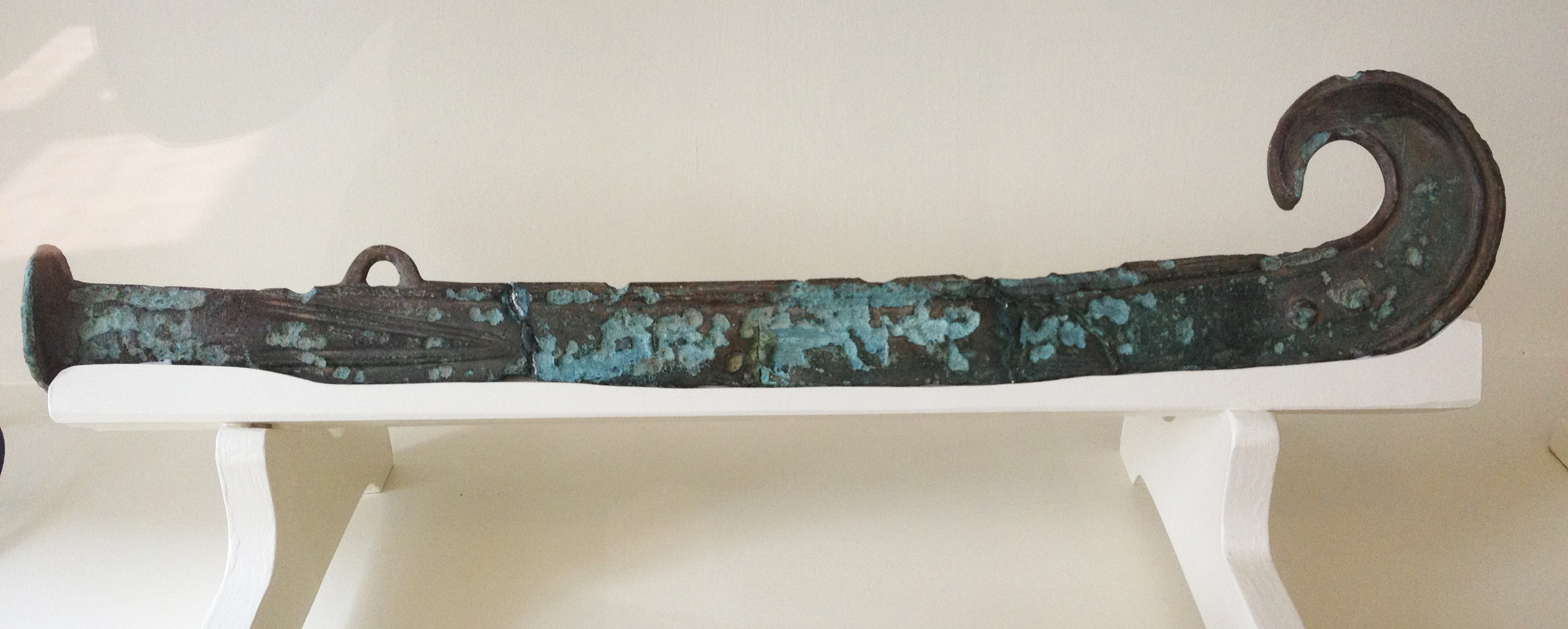 "Krumsvärd" - Early Scandinavian Bronze Age sword, Period 1 (1800-1500 BC.). Found at Knutstorps gård, Södra Åsby Socken, Trelleborgs kommun, Skåne, Sweden. Located at the Museum of History, Lund, Sweden.